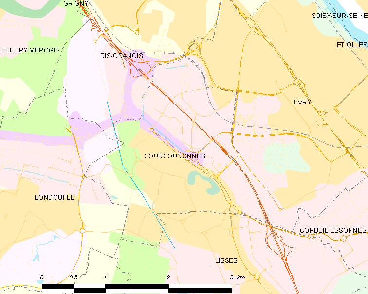 Map of French municipality Courcouronnes